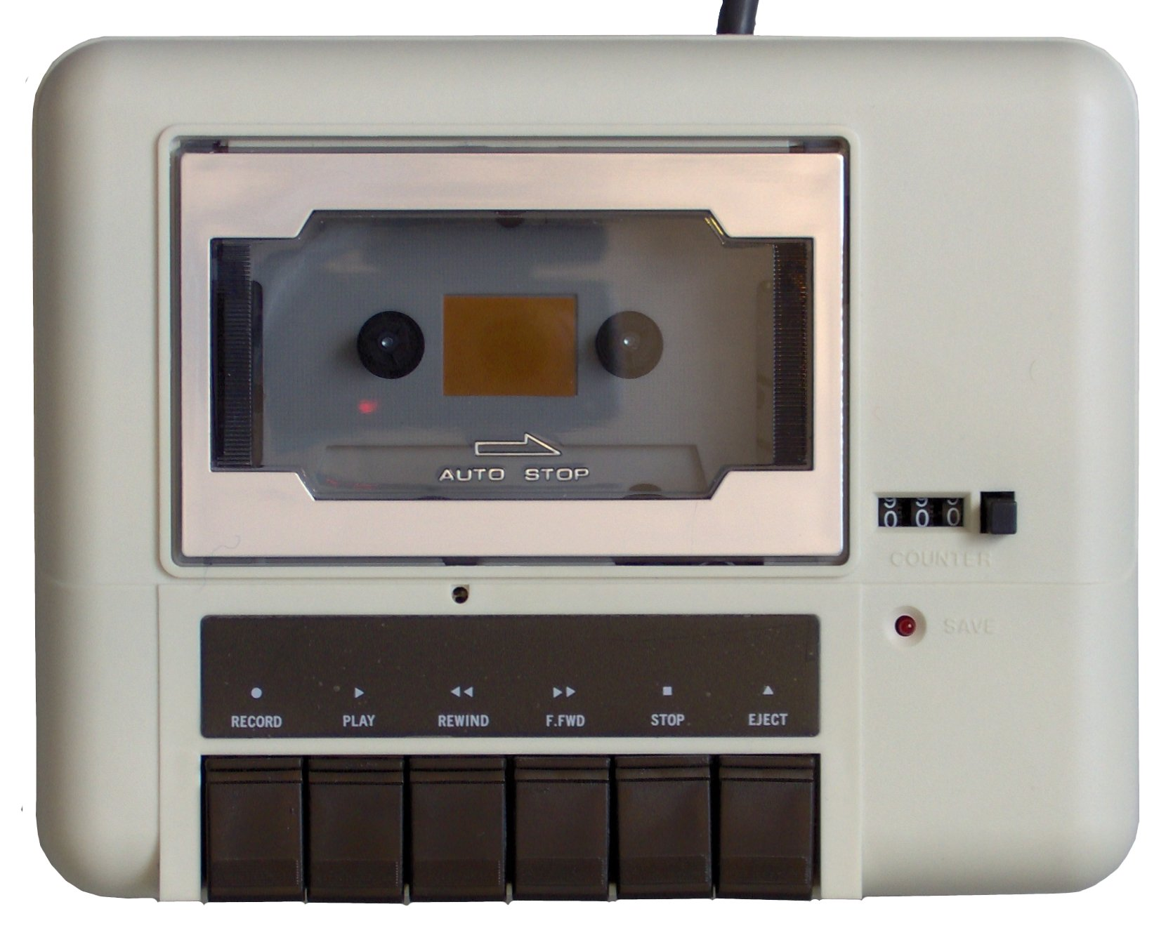 3rd party clone of Commodore International's 1530 tape drive. Compatible with C64, C128, PET and VIC-20. See:Image:Commodore-Datassette.jpg